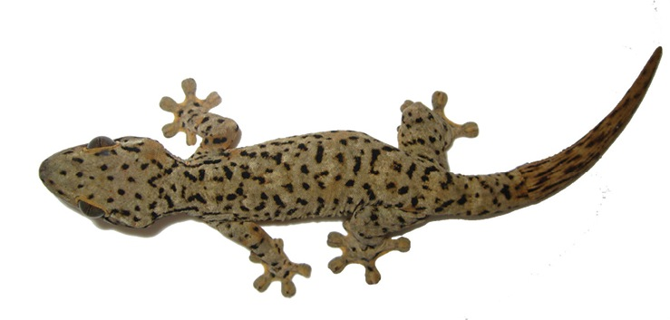 Thecadactylus oskrobapreinorum in life (specimen not preserved; from Sint Maarten, Lesser Antilles). Photo by Stephan Prein.